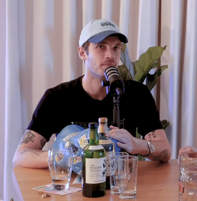 PewDiePie seen on the Cold Ones podcast (2019).